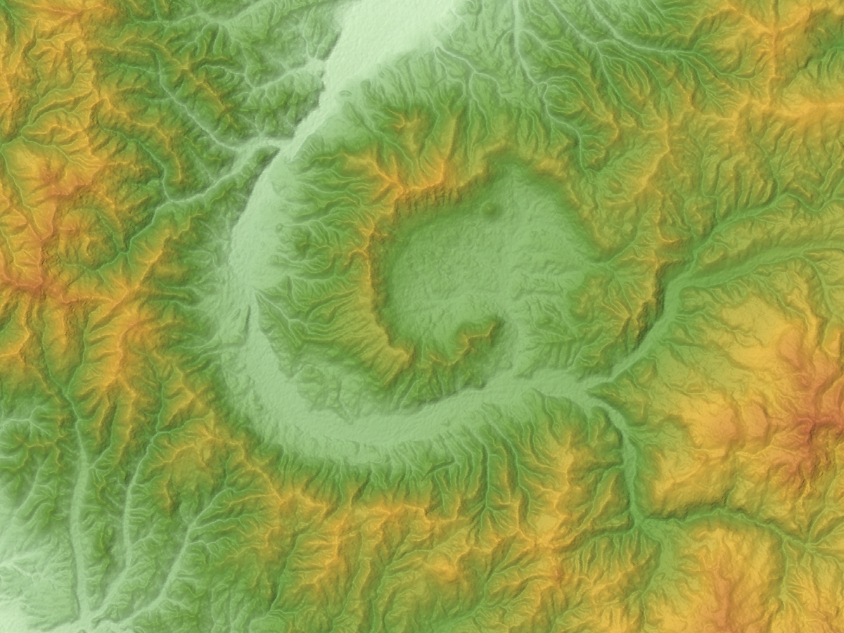 Akaigawa Caldera (inside) and Yoichigawa Caldera (outside) in Hokkaido, Japan.